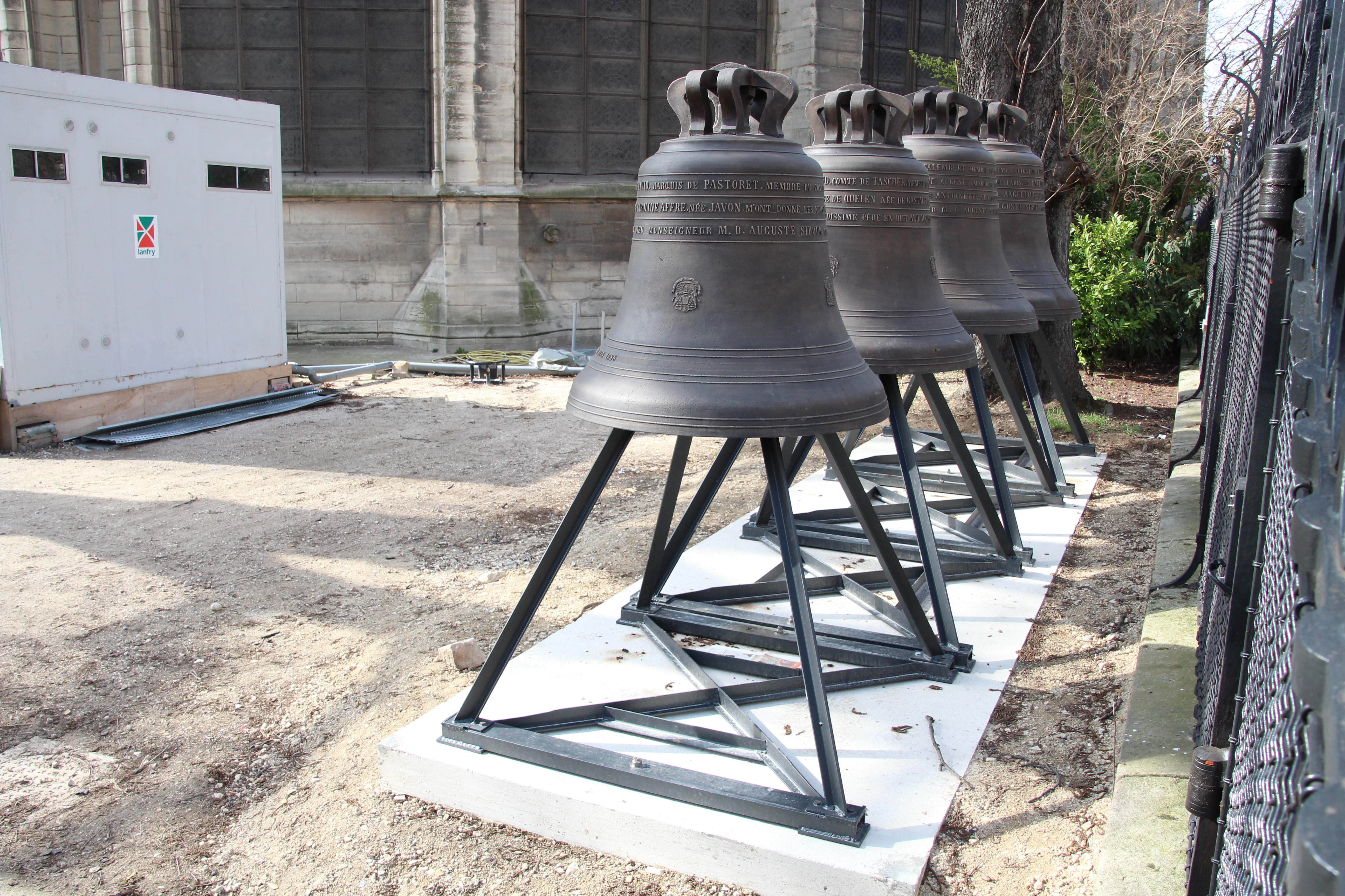 Old bells of Notre-Dame de Paris presented at the back of the cathedral in Paris, France. - Google Maps - Google Earth